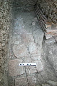 Baked-brick courtyard paving and wall near the Minaret of Jam